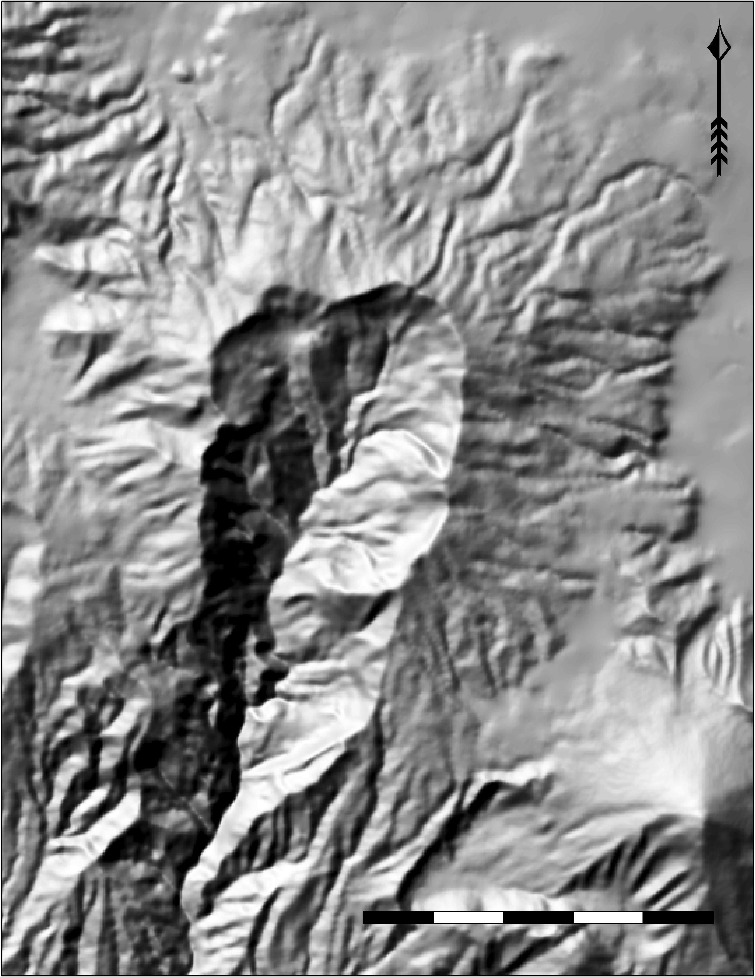 This is a hillshade map of Volcan Siete Orejas with Santa Maria visible in the bottom left-hand corner.